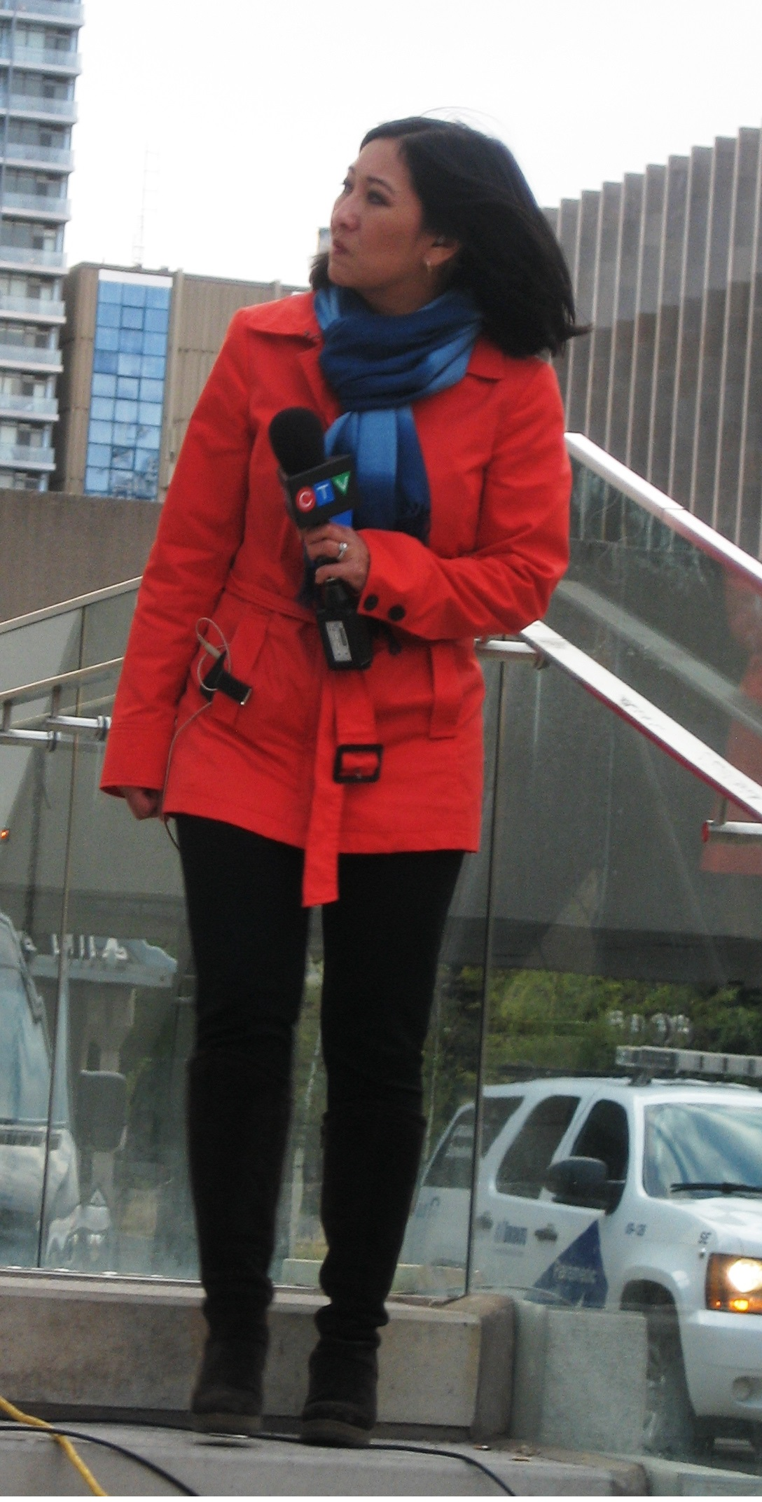 Zuraidah Alman of CFTO-DT seen at Nathan Phillips Square reporting for the Game 1 of the ALDS between the Toronto Blue Jays and Texas Rangers on October 8, 2015. The Rangers won the game 5-3.